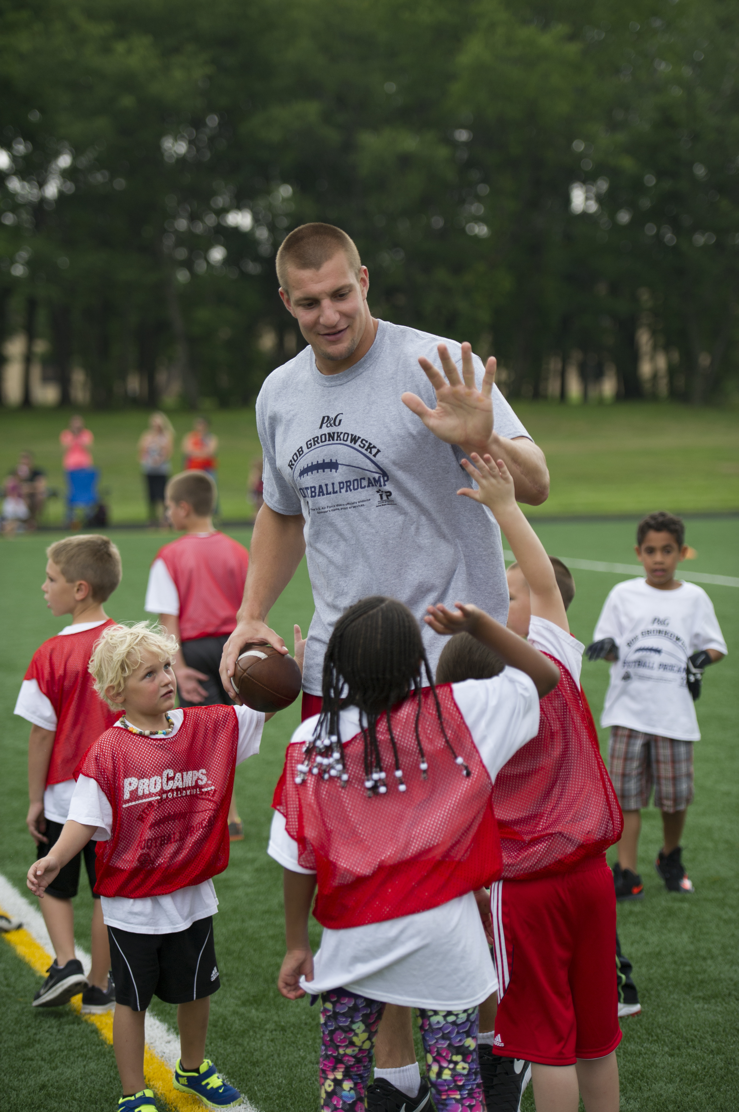 Rob Gronkowski, New England Patriots tight end, high-fives his team during a football camp on Joint Base Andrews, Md., July 2, 2015. Gronkowski, a three time Pro Bowler and Super Bowl XLIX champion, coached approximately 100 military children during the two-day camp. (U.S. Air Force photo/Tech. Sgt. Robert Cloys)